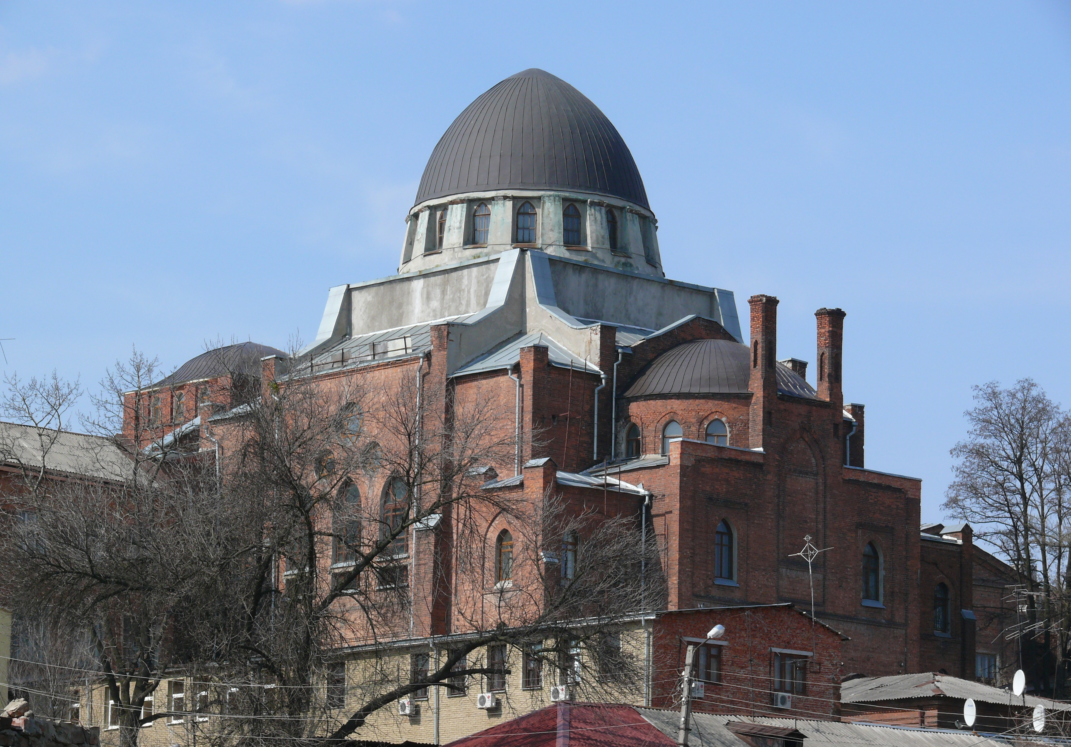 Kharkov Synagogue. 1914